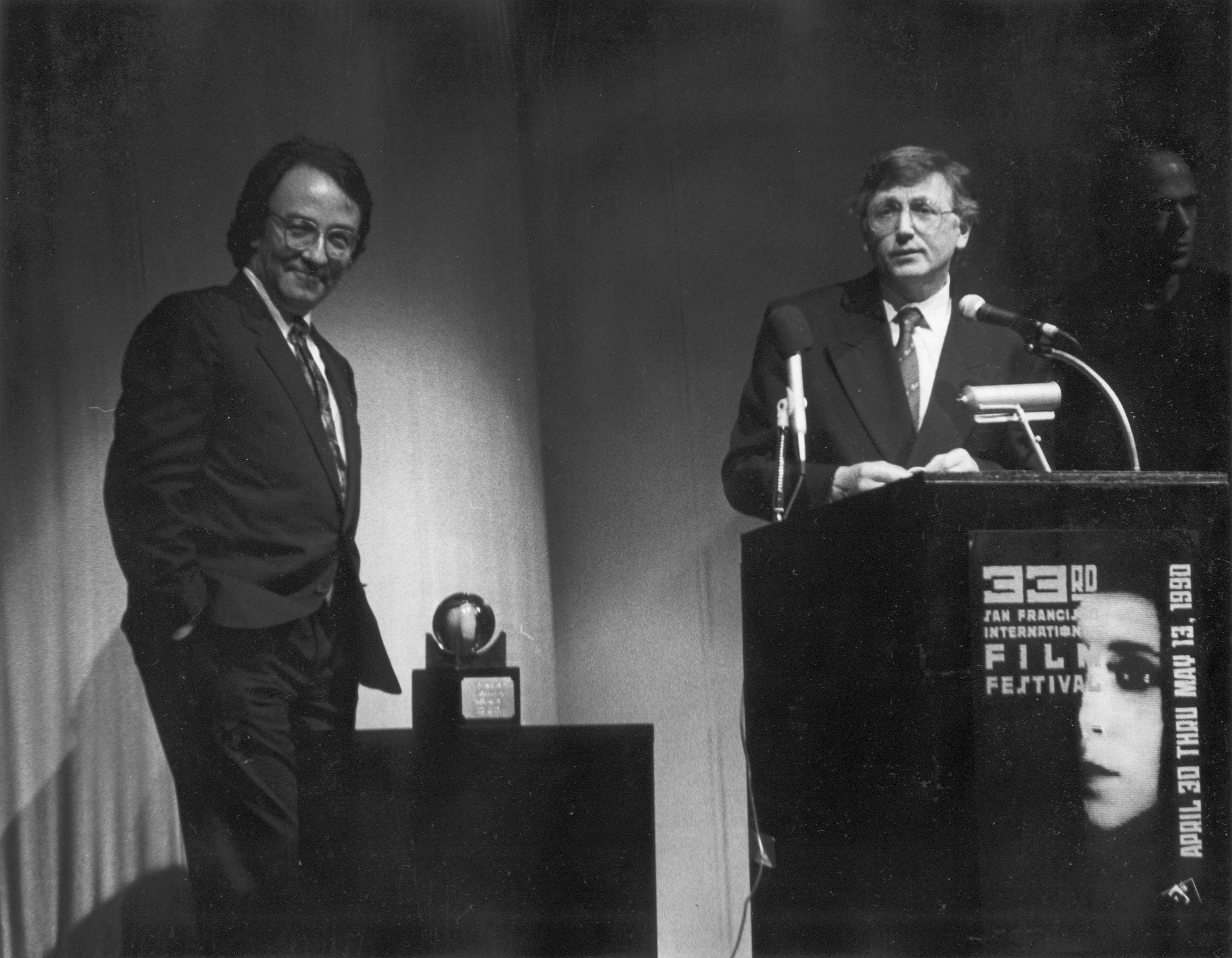 Black and white photograph of Czech film director Jiri Menzel (Czech Jiří Menzel) receiving the Akira Kurosawa Award at the 33rd San Francisco International Film Festival. Festival ran from 30 April to 13 May 1990; exact date of award and photo uncertain. Scan of print made from Kodak Trix 5063 35 mm negative.